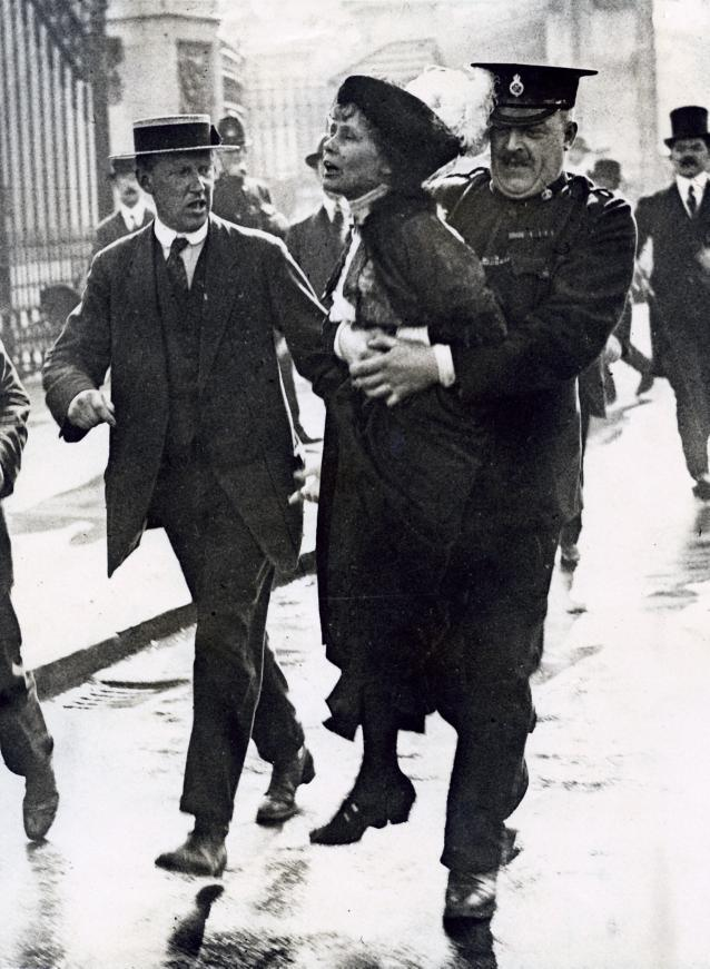 Suffragette (women's rights movement) Emmeline Pankhurst being arrested after protesting near Buckingham Palace in London on May 22, 1914.